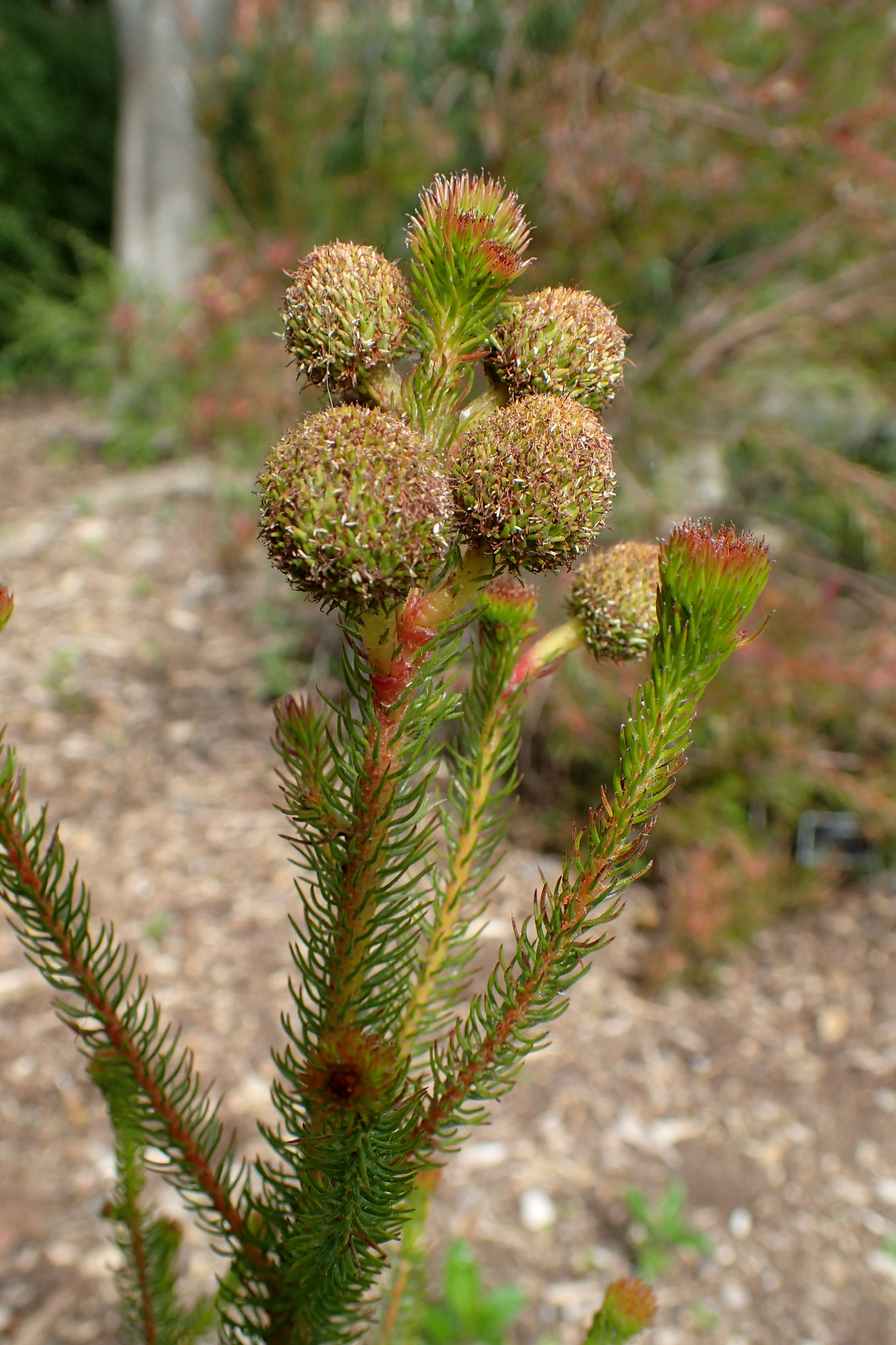 Berzelia rubra in Auckland Botanic Gardens